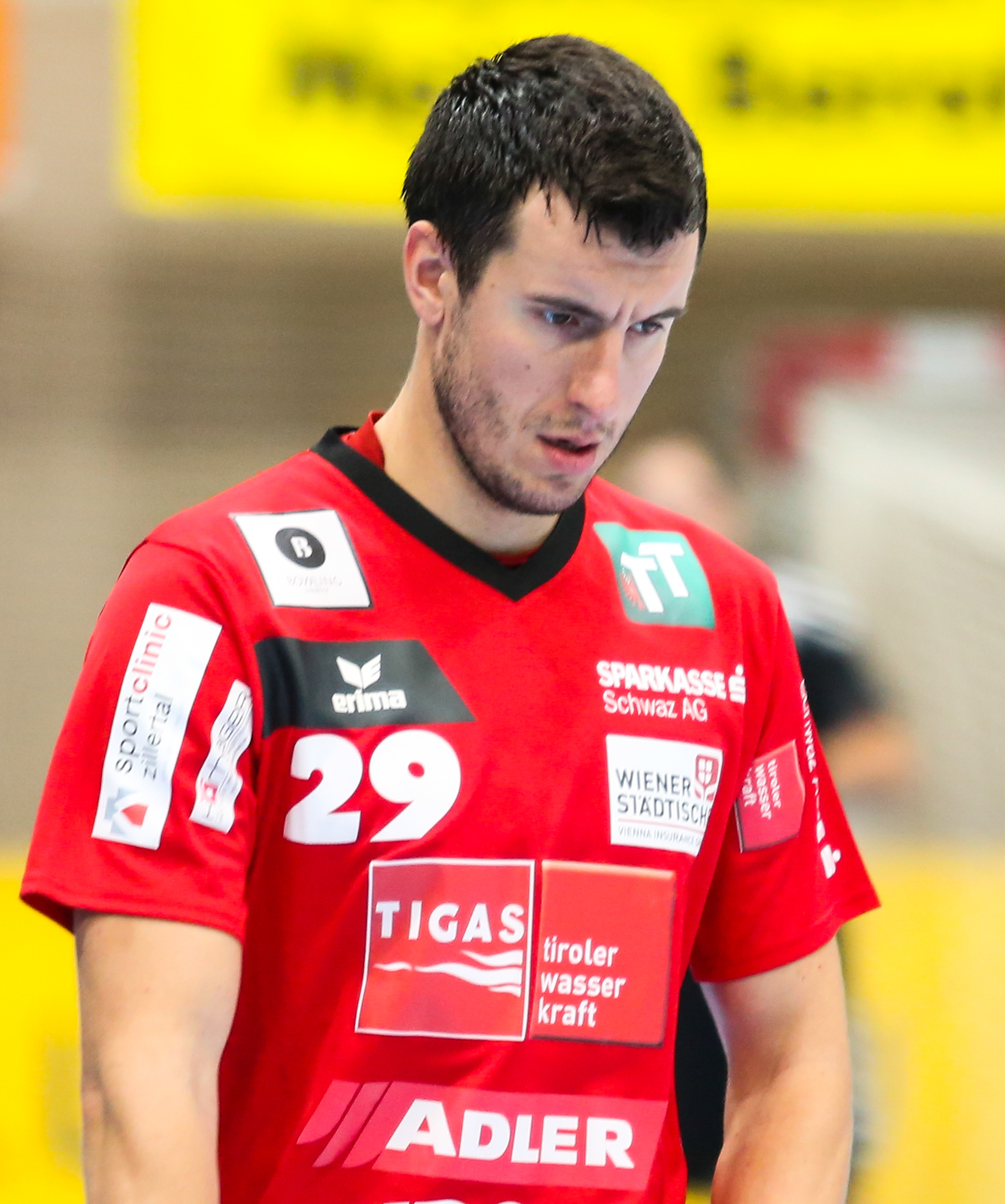 Damir Djukic during a game of the Handball Liga Austria.